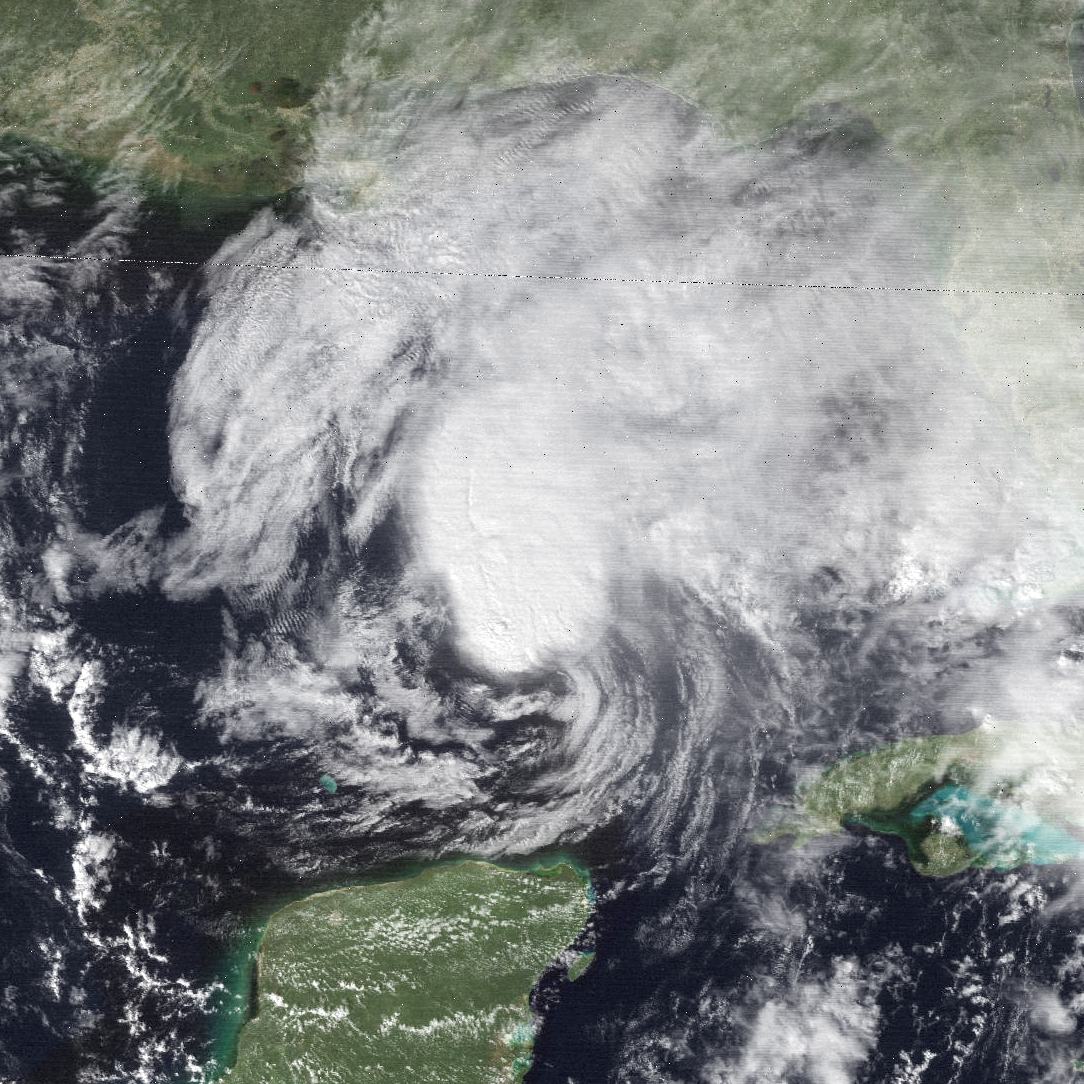 Hurricane Jeanne at peak intensity in the Gulf of Mexico on November 11, 1980